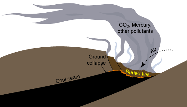 Scheme; condition / favorable to a mine fire configuration, with emissions of dust, fine particles, radon, mercury vapor, CO, CO2, NOx, SO2, etc.. source pollution and gas contributing to the greenhouse effect